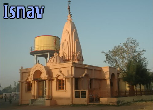 Isnav Village